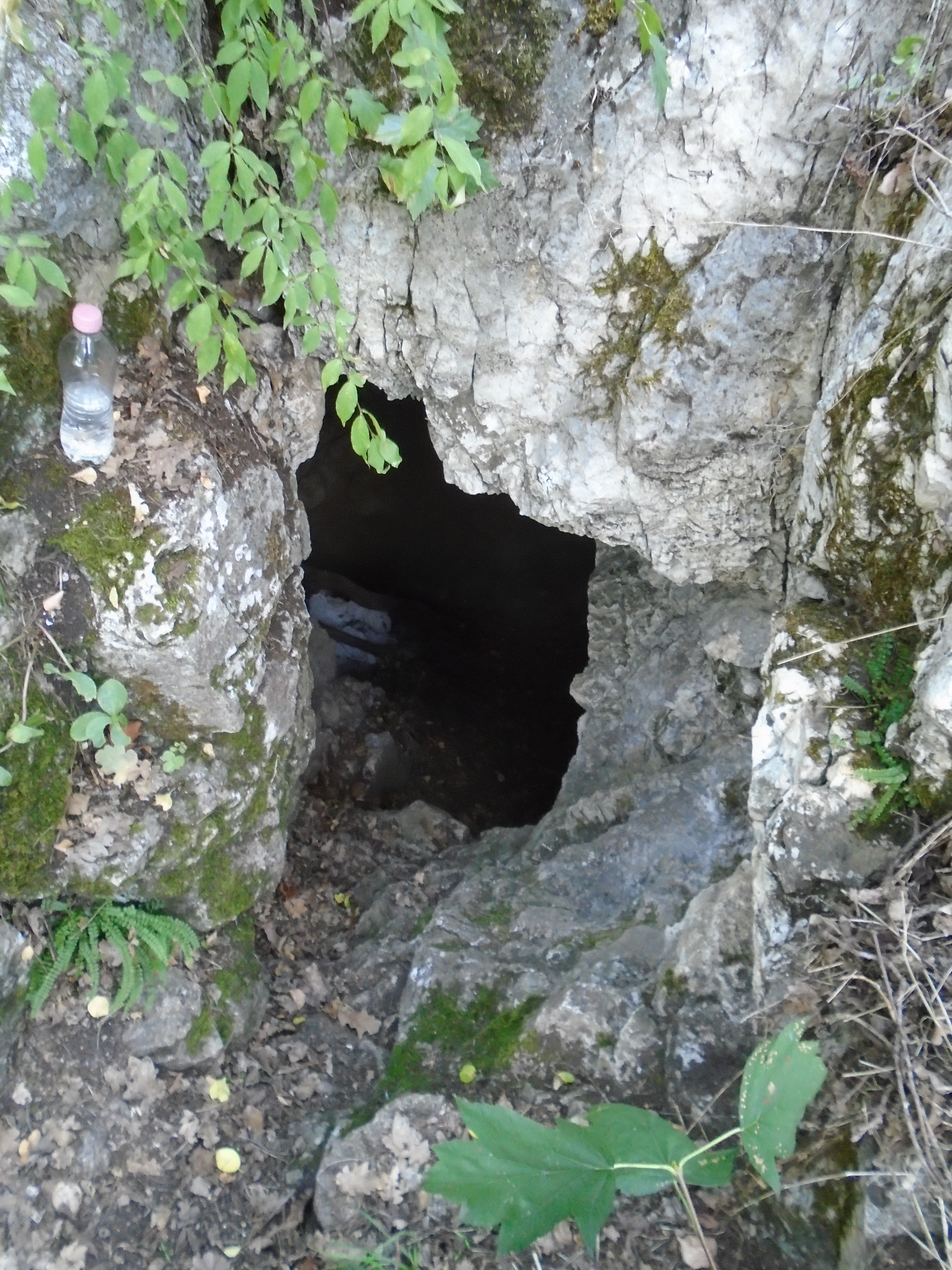 Entrance of Hét Hole.